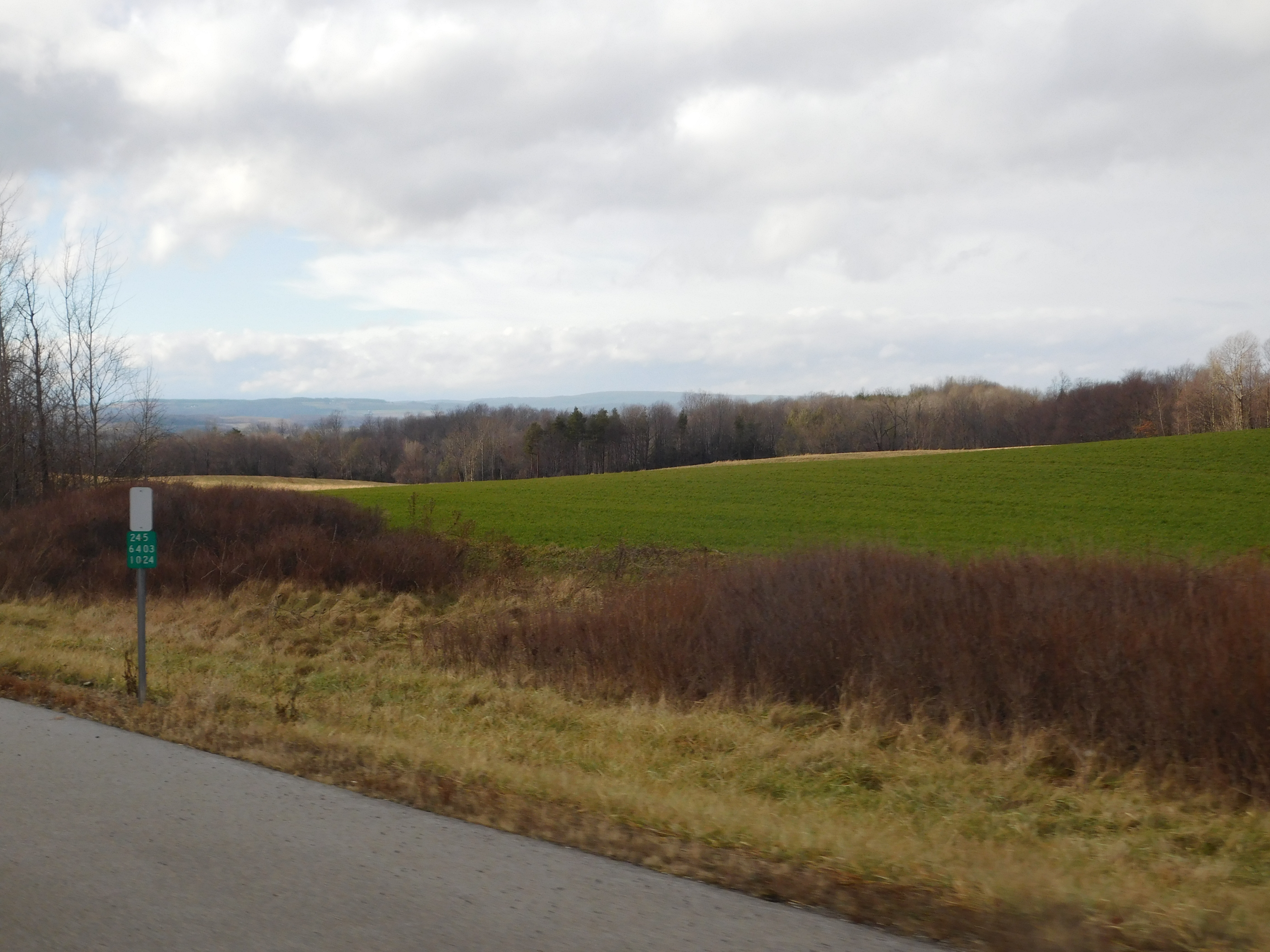 Interstate 390 reference marker denoting its former designation of Route 245.